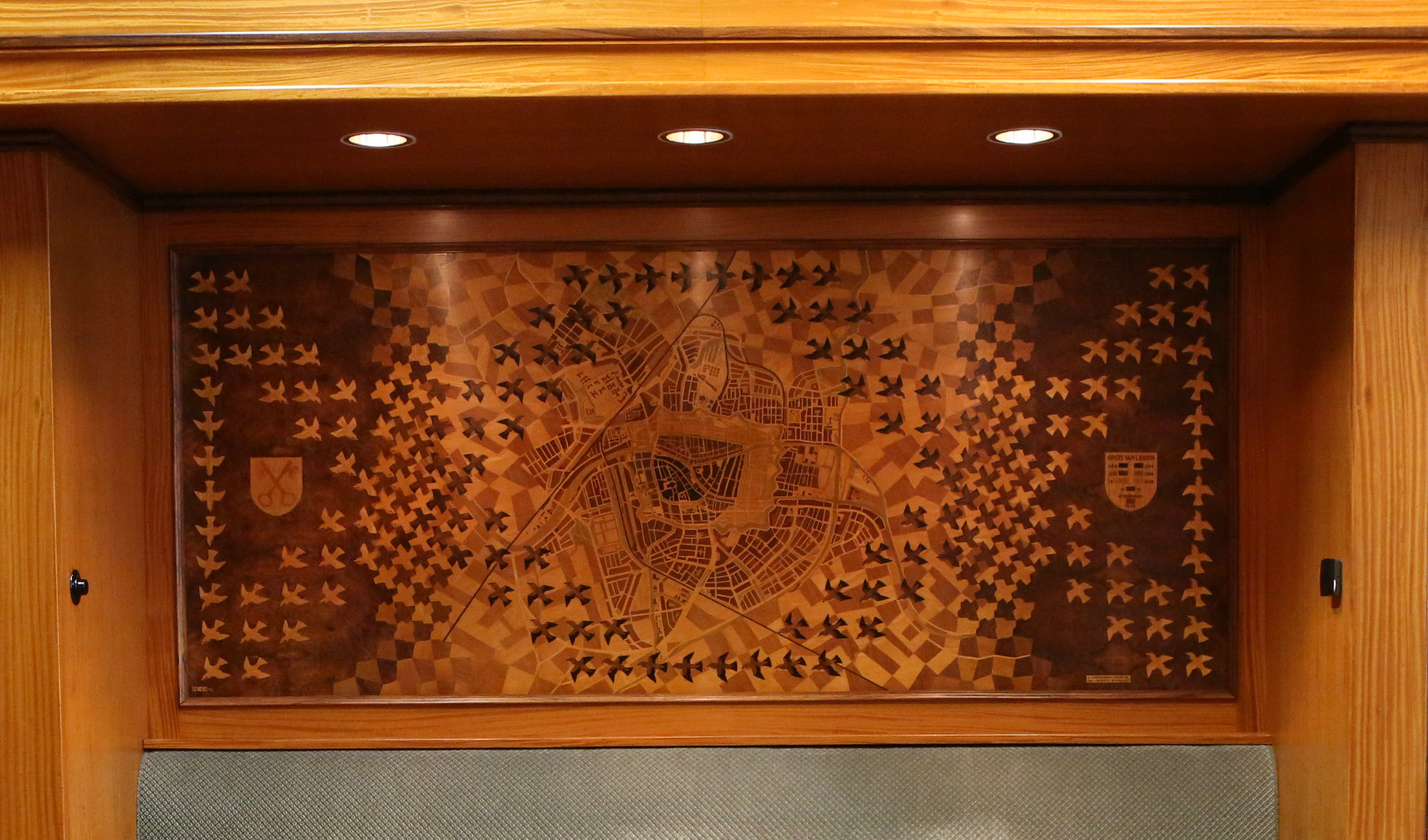 The wooden map of Leiden in the mayor's office in the town hall of Leiden, the Netherlands. Design by M.C. Escher.